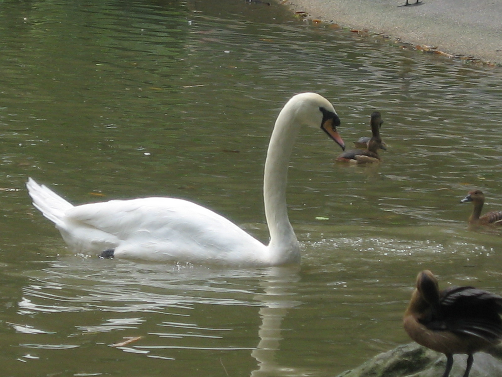 Jurong BirdPark. Taken by Terence Ong in November 2006.